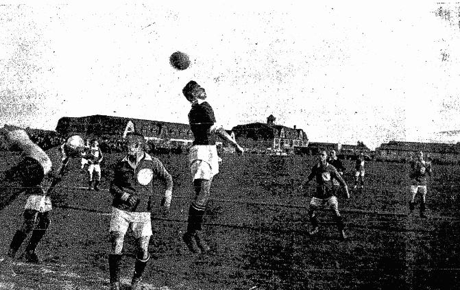 Sokół Toruń vs. Warta Poznań football match in 1922. Head shot by Wawrzyniec Staliński